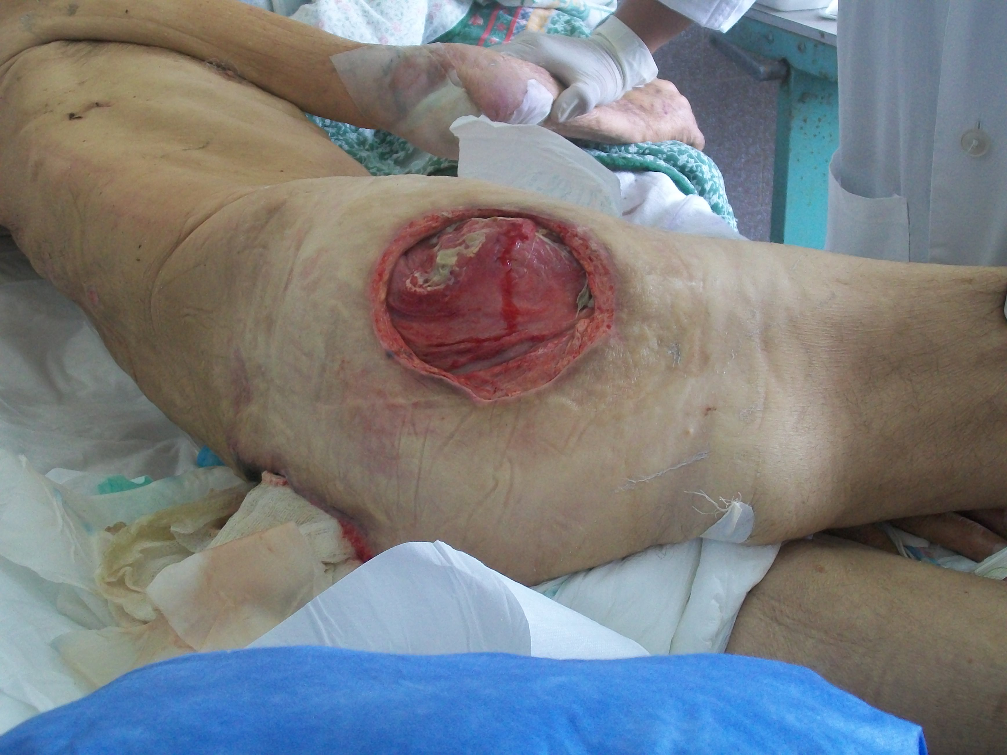 Stage 4 decubitus displaying the Gluteus medius muscle attached to the crest of the ilium.